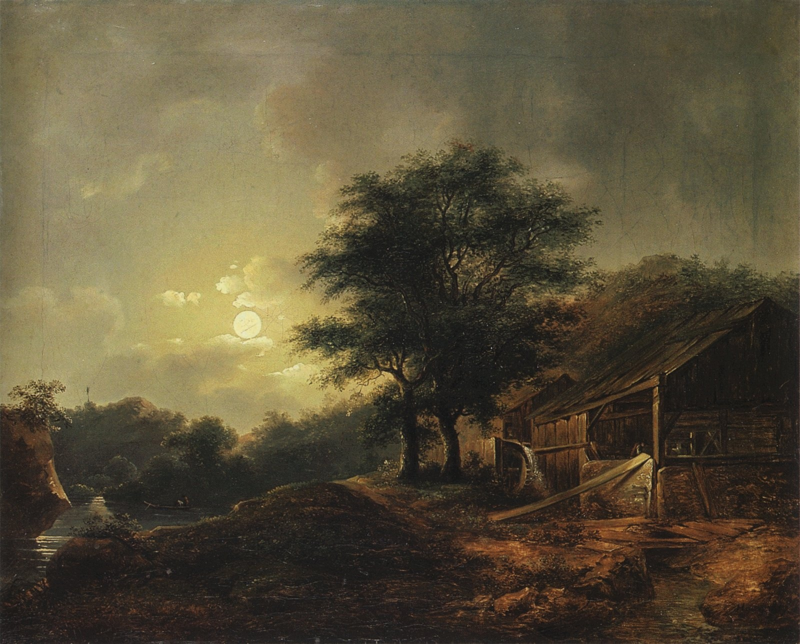 Watermill in moonlight